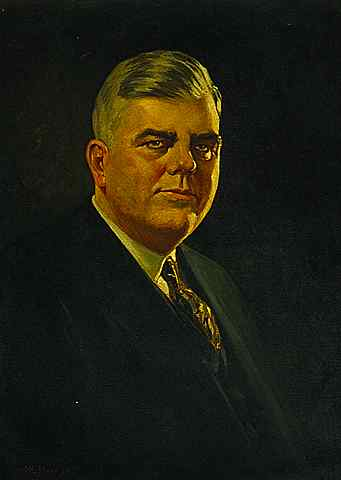 Oil painting of Minnesota Governor Theodore Christianson Painter: H. Elmer House Art Collection, oil 1924 Location no. AV1988.45.60 Negative no. 82822